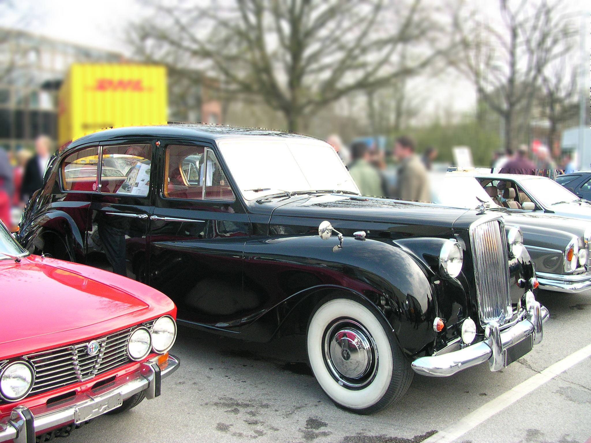 Essen Techno-Classica 2007. Vanden Plas Princess Limousine (1962)